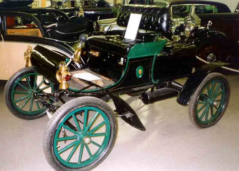 Oldsmobile Model R Curved Dash Runabout 1903